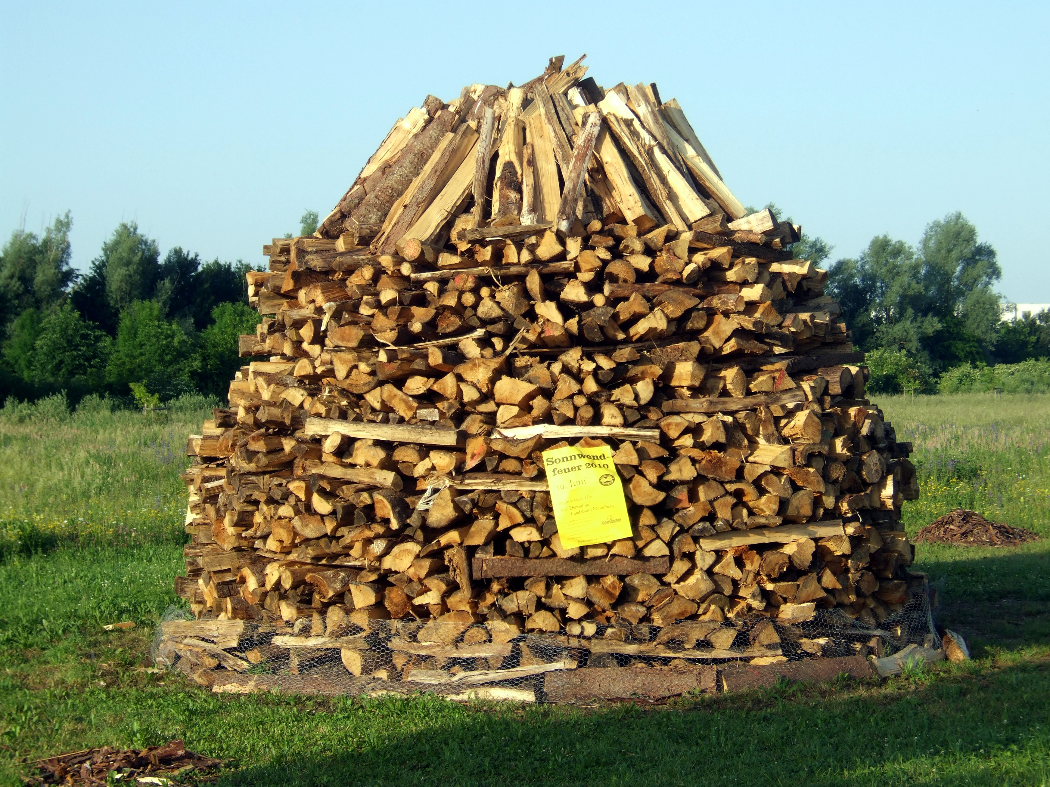 Pyre for a midsummer night bonfire in the Landschaftspark Hachinger Tal